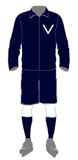 Representation of the 1913 uniform for team Victoria, ice hockey Australia. Other information This is completely my own work, created to provide a representation of uniform worn by the 1913 state team for Victoria - based on old photographs and descriptions of the uniform. Please feel free to share and use this file.